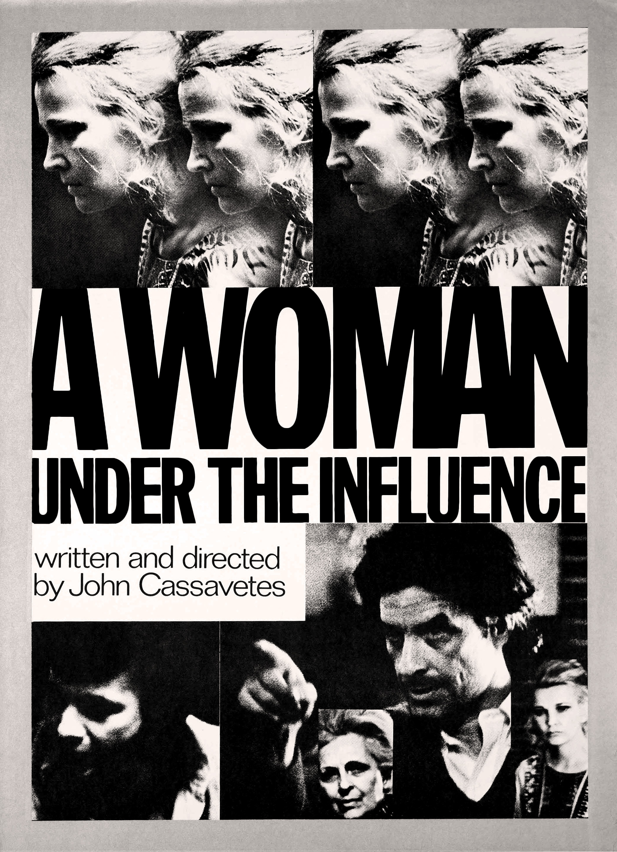 Theatrical release poster for John Cassavetes's 1974 film A Woman Under the Influence. Cropped to the just the main design, removing the extra space for theater information.